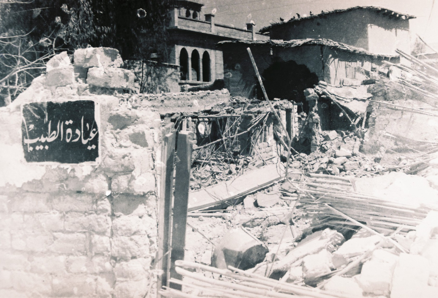 Karameh lying in ruins